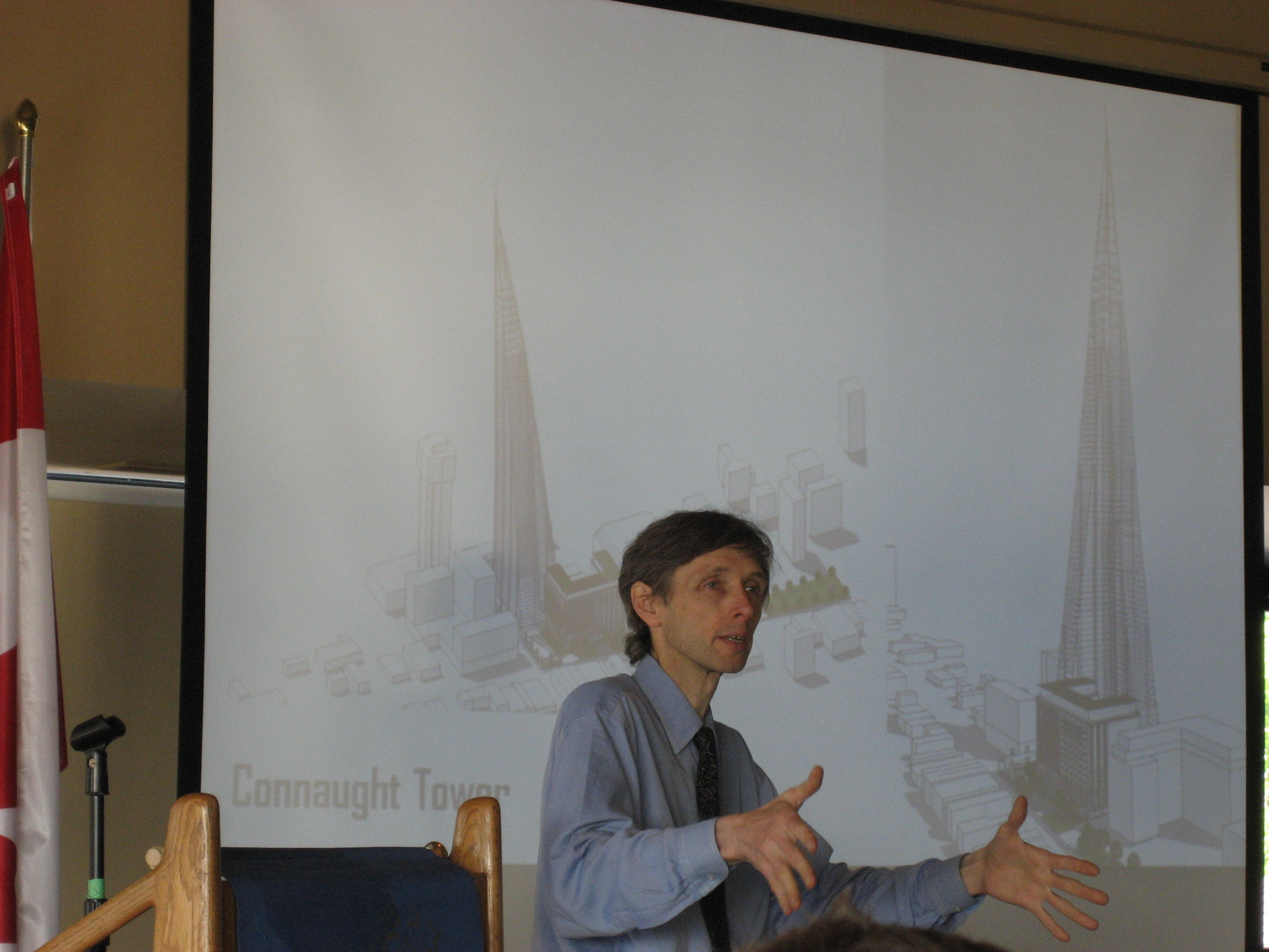 Harry Stinson public presentation of the 100-storey Connaught Tower for downtown Hamilton, Ontario at the Hamilton Chamber of Commerce building.